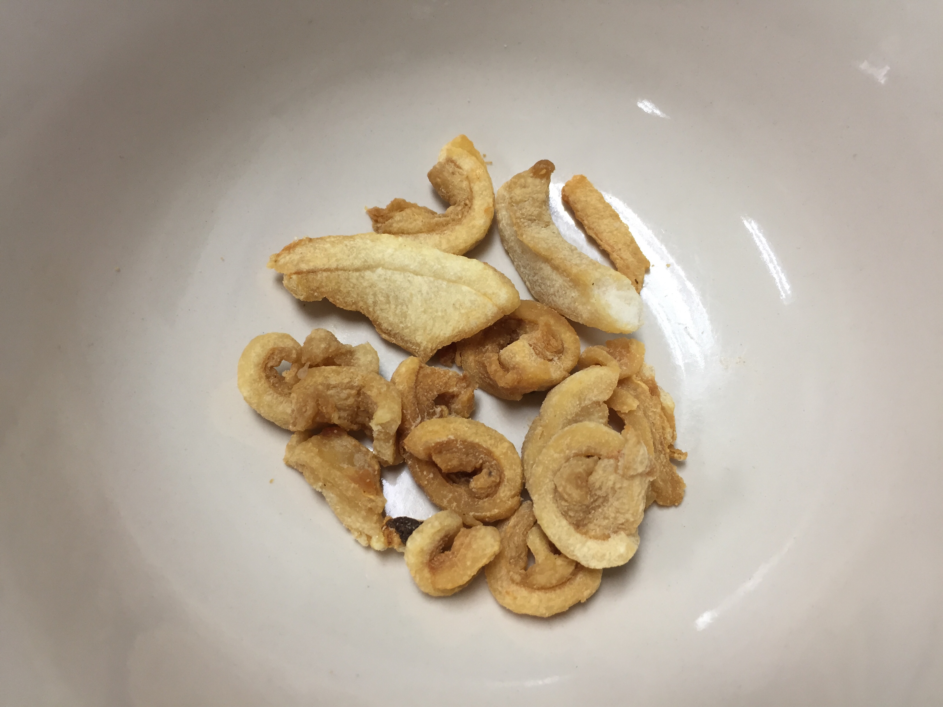 Pork crackling